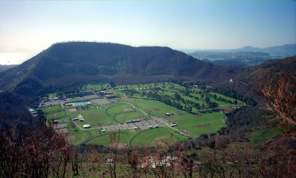 Crater of Monte Gauro, Carney Park in it.